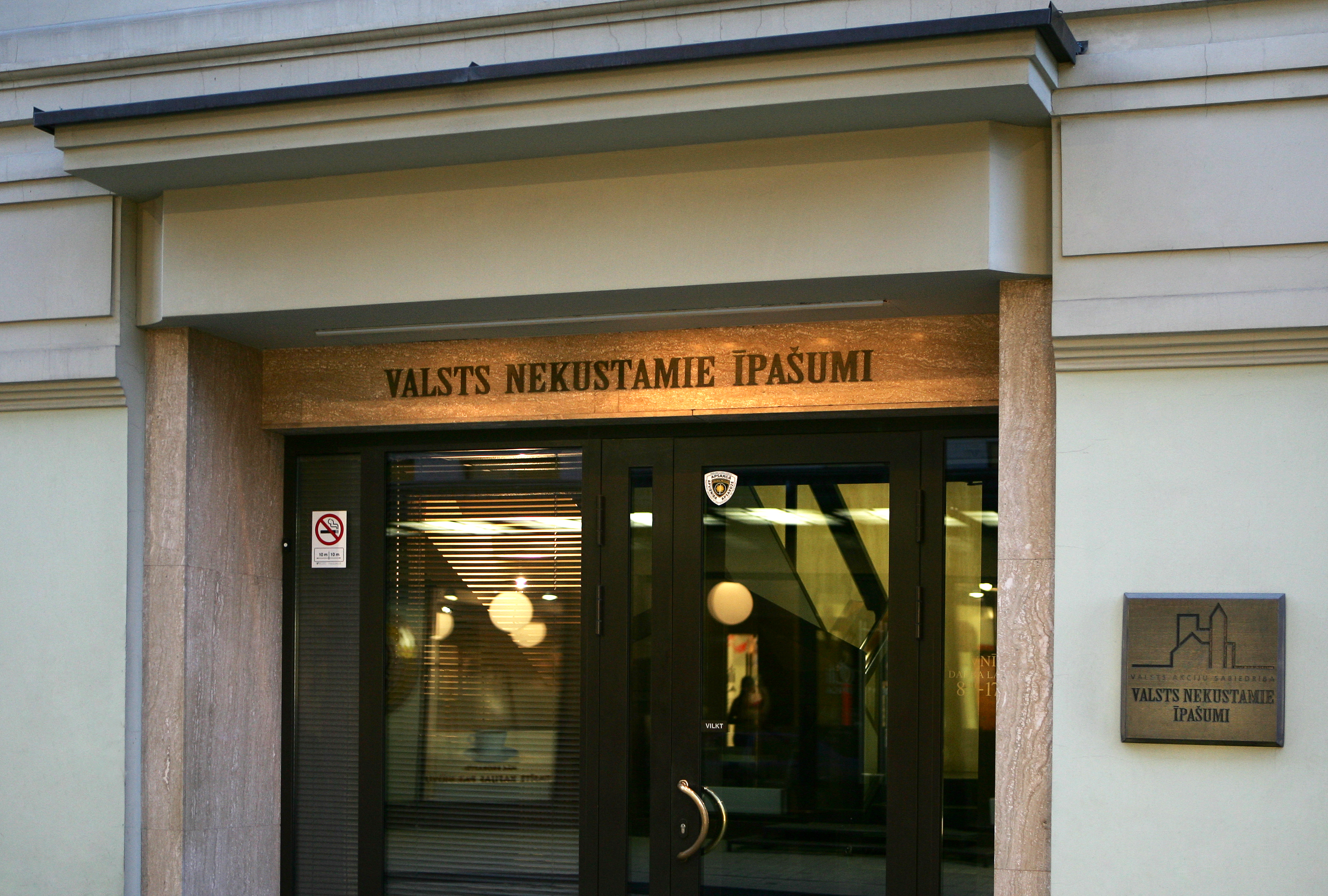 State Real Estate headquarter in Valnu street 28, Riga, Latvia